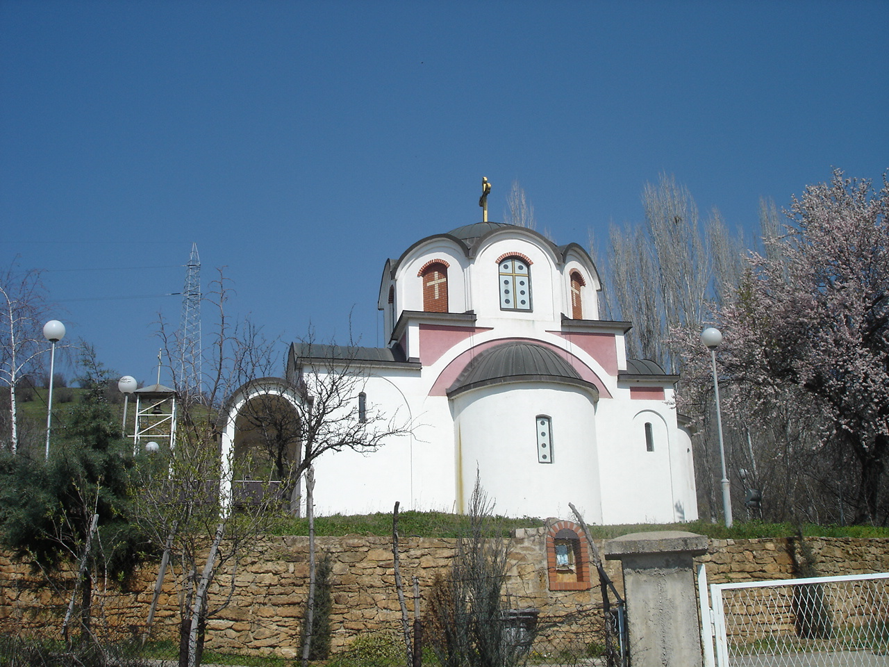 The church in Brnjarci, Macedonia